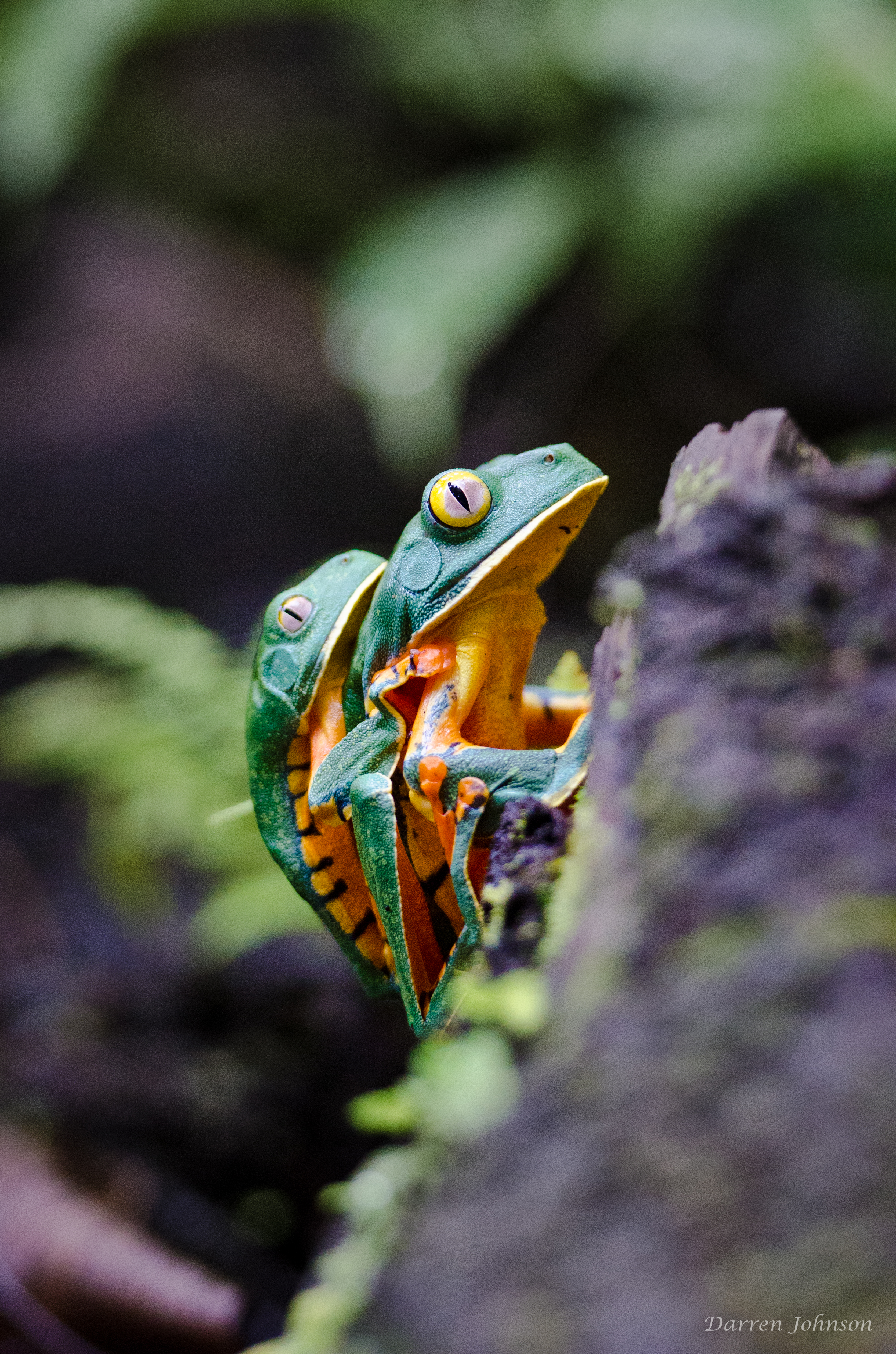 Our guides were very excited to see these mating frogs on our nature walk in Costa Rica. Apparently it's quite rare to see in the day time. If you're wondering, the male is the little one!Note: Location could be Arenal Volcano National Park, less likely Monte Verde National Park